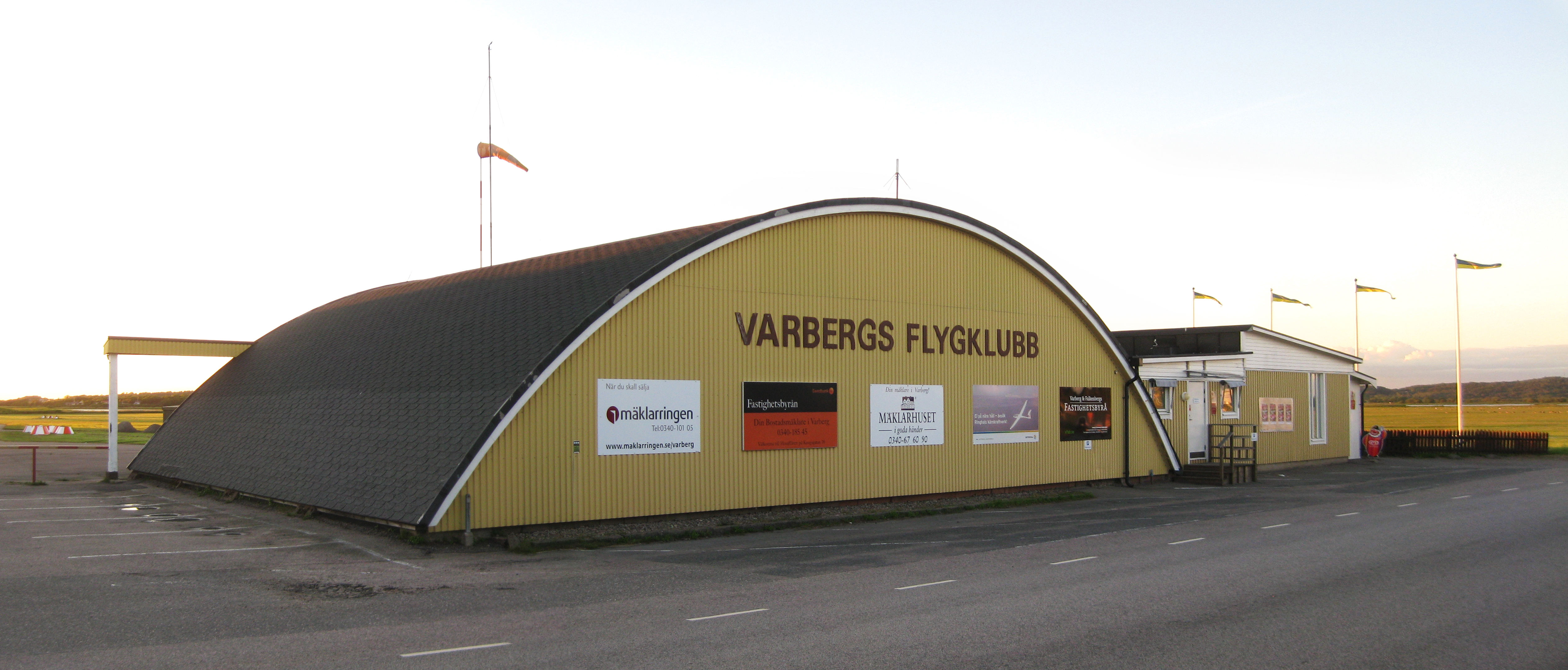 Varbergs airfield, about 4 km northwest from the center of Varberg, Sweden.